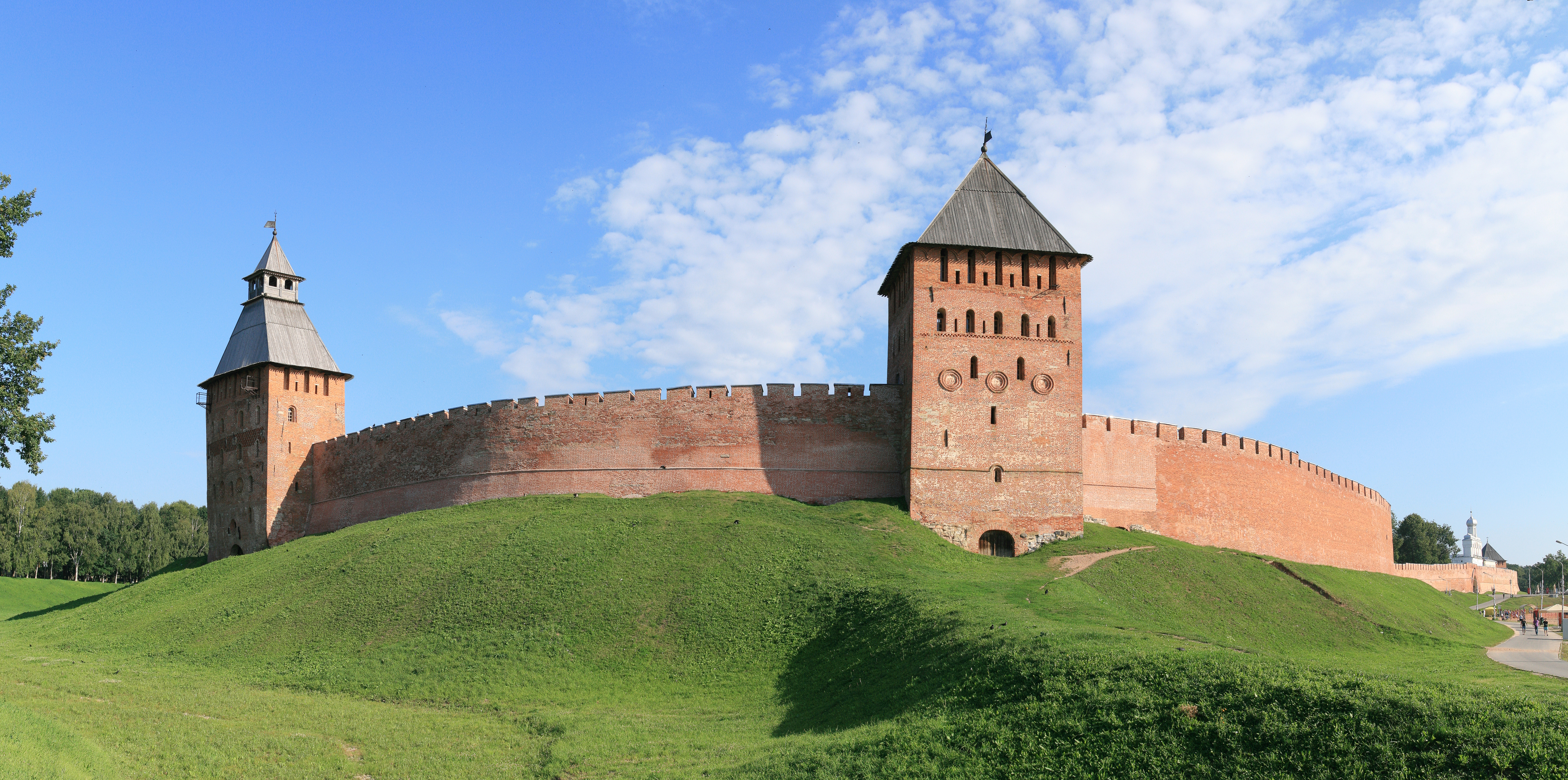 Dvortsovaya and Spasskaya Towers of Velikiy Novgorod Detinets